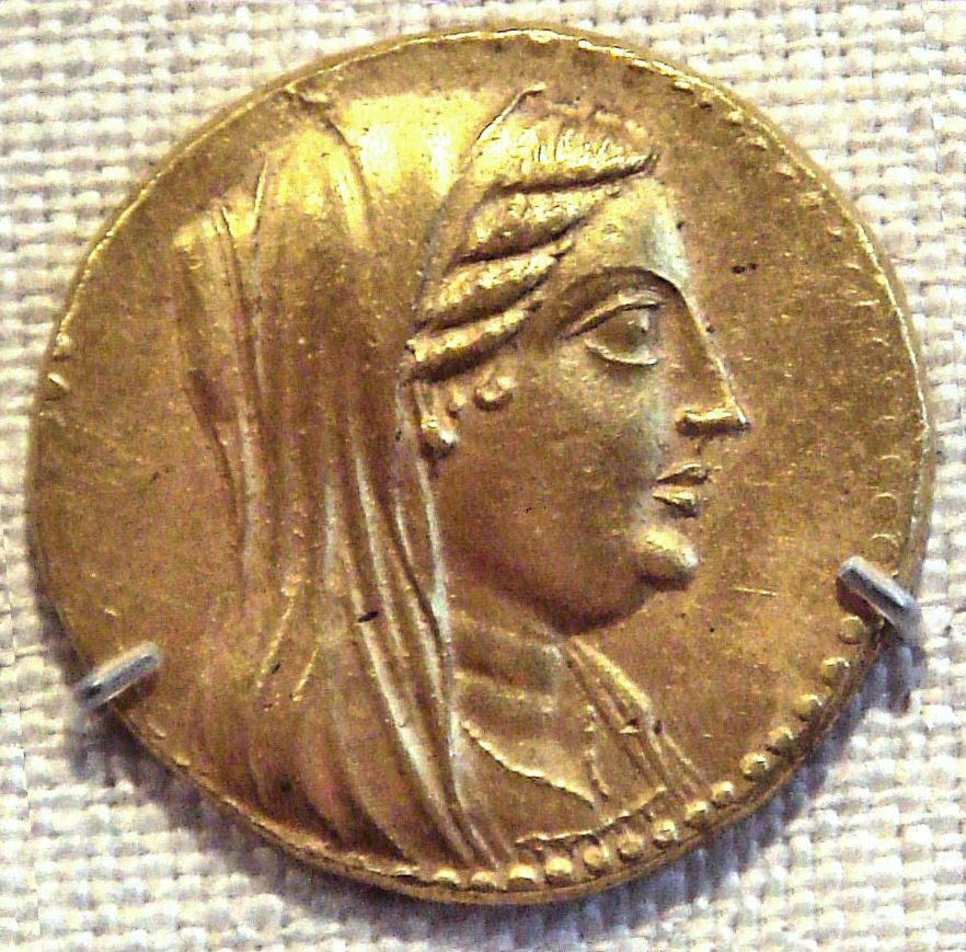 Berenike II on a coin of Ptolemy III (246-221 BC).